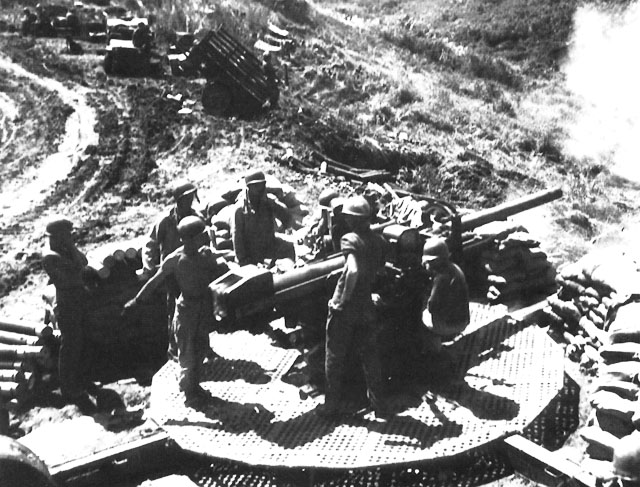 U.S. 90-mm. antiaircraft gun firing ground support, northern Negros.